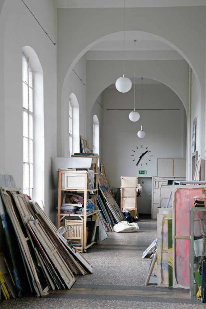 Corridor of the Kunstakademie Düsseldorf